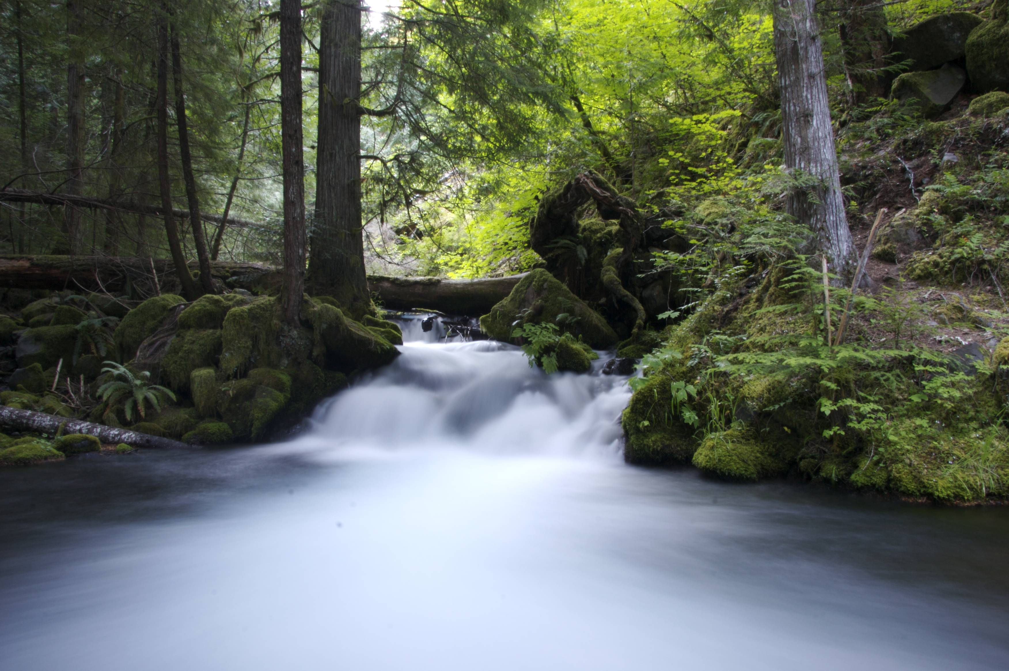 This image was taken by Henry Westbrook. This is my image and can be used under the GFDL License.